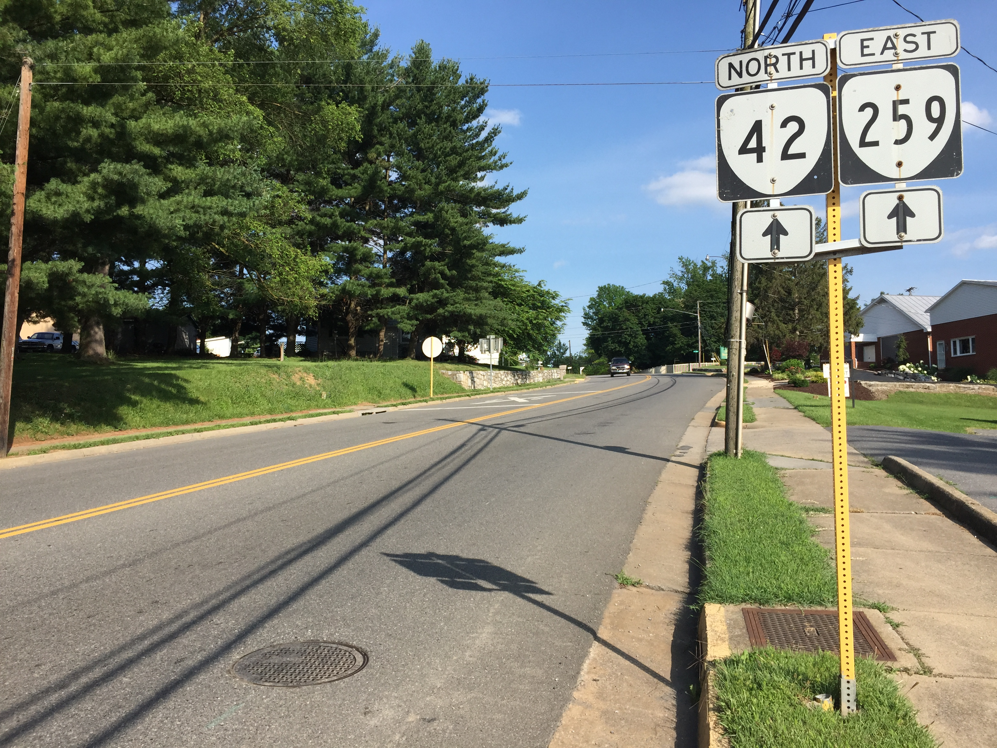 View north along Virginia State Route 42 and east along Virginia State Route 259 (Lee Street) at Louisa Street in Broadway, Rockingham County, Virginia